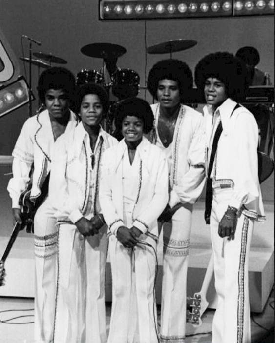 Photo from the Jackson 5 1972 television special.